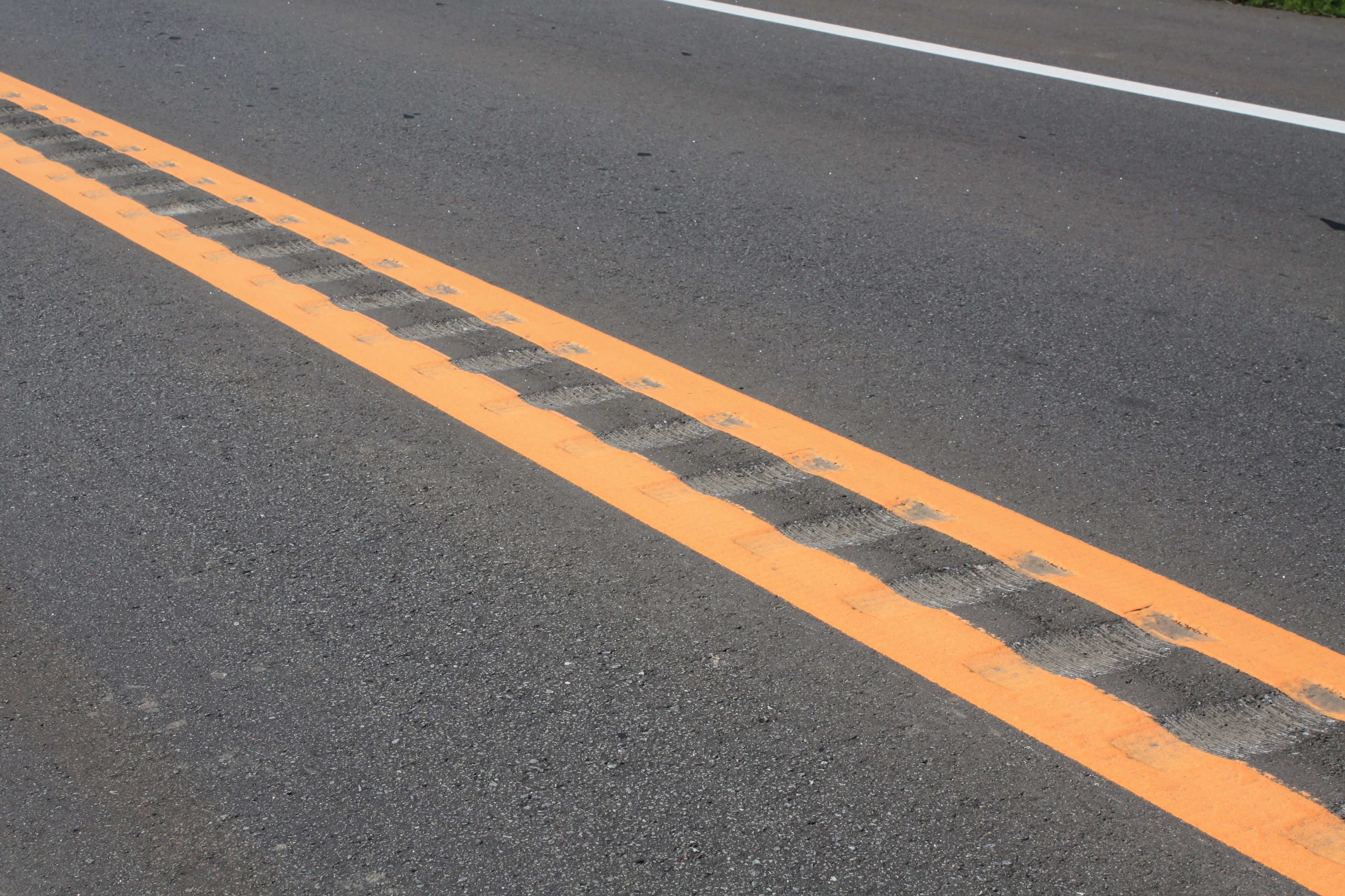 Rumble strip on the Japan National Route 230. This photograph was taken in Toyako, Hokkaido, Japan.